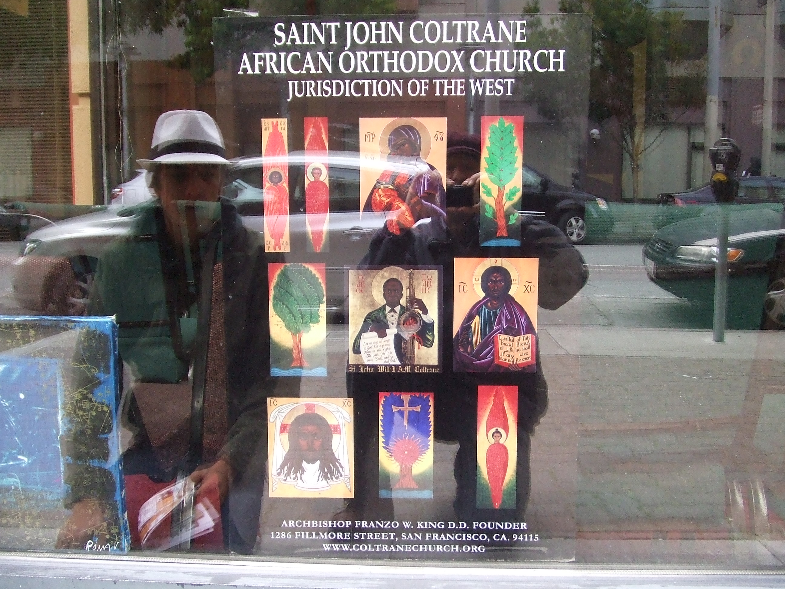 Coltrane church San Francisco